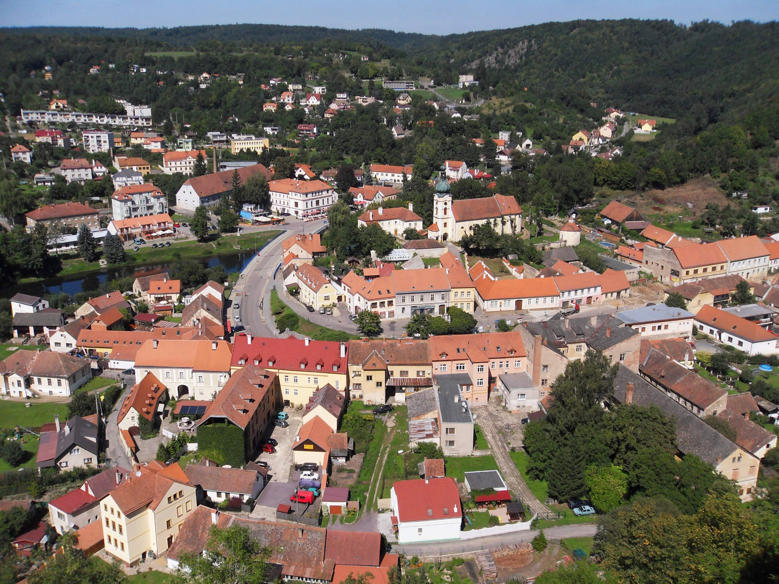 Vranov nad Dyjí, Znojmo district, Czech Republic